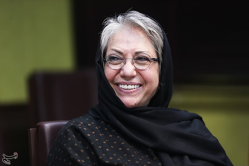 Rakhshan Bani Etemad in a roundtable discussion about Iran social cinema in Tasnim News Agency.